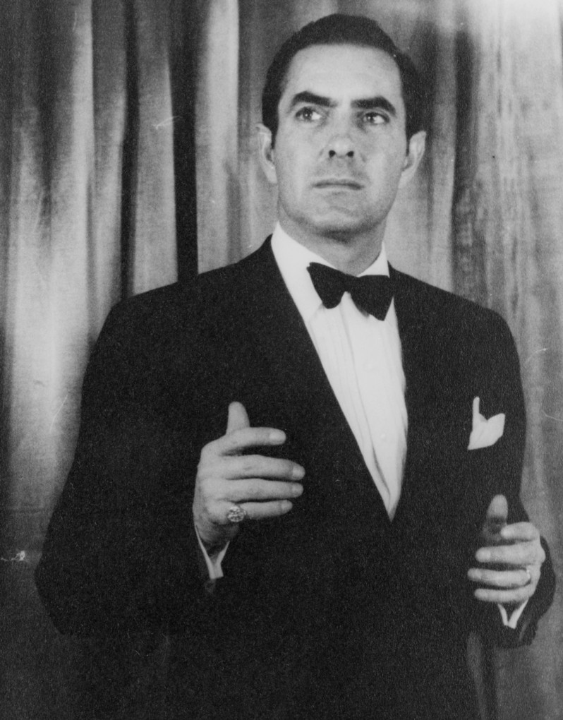 Portrait of Tyrone Power, in "John Brown's body" (cropped)(1953 March 3)